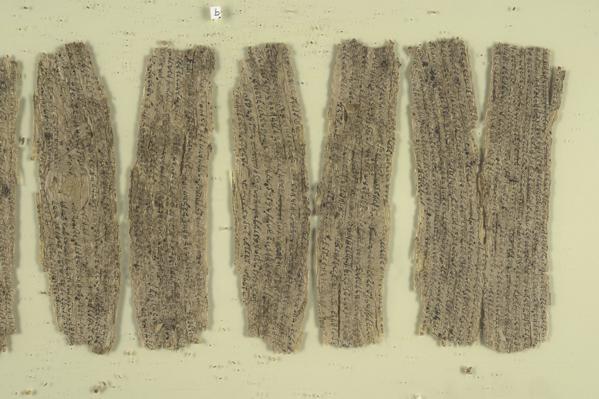 Fragmentary Buddhist text The manuscript is written on birchbark and is part of a group of early manuscripts from Gandhara (modern East Afghanistan/Noth-West Pakistan).